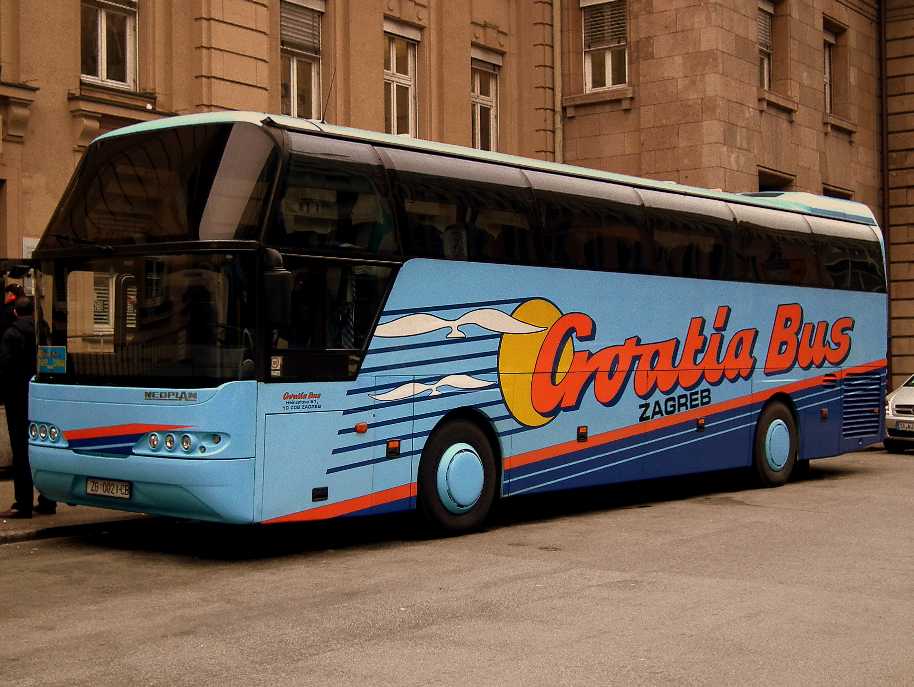 CROATIA BUS NEOPLAN COACH AT FRANKFURT MAIN HAUPTBAHNHOF NOV 2011